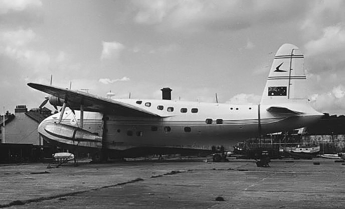 Short Sandringham 7 VH-APG "St George" at Cowes for Captain Bill Taylor for South Seas flying cruises